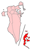 Map of Bahrain showing Juzur Hawar municipality. The municipalities were dissolved in 2002 and replaced with governorates.